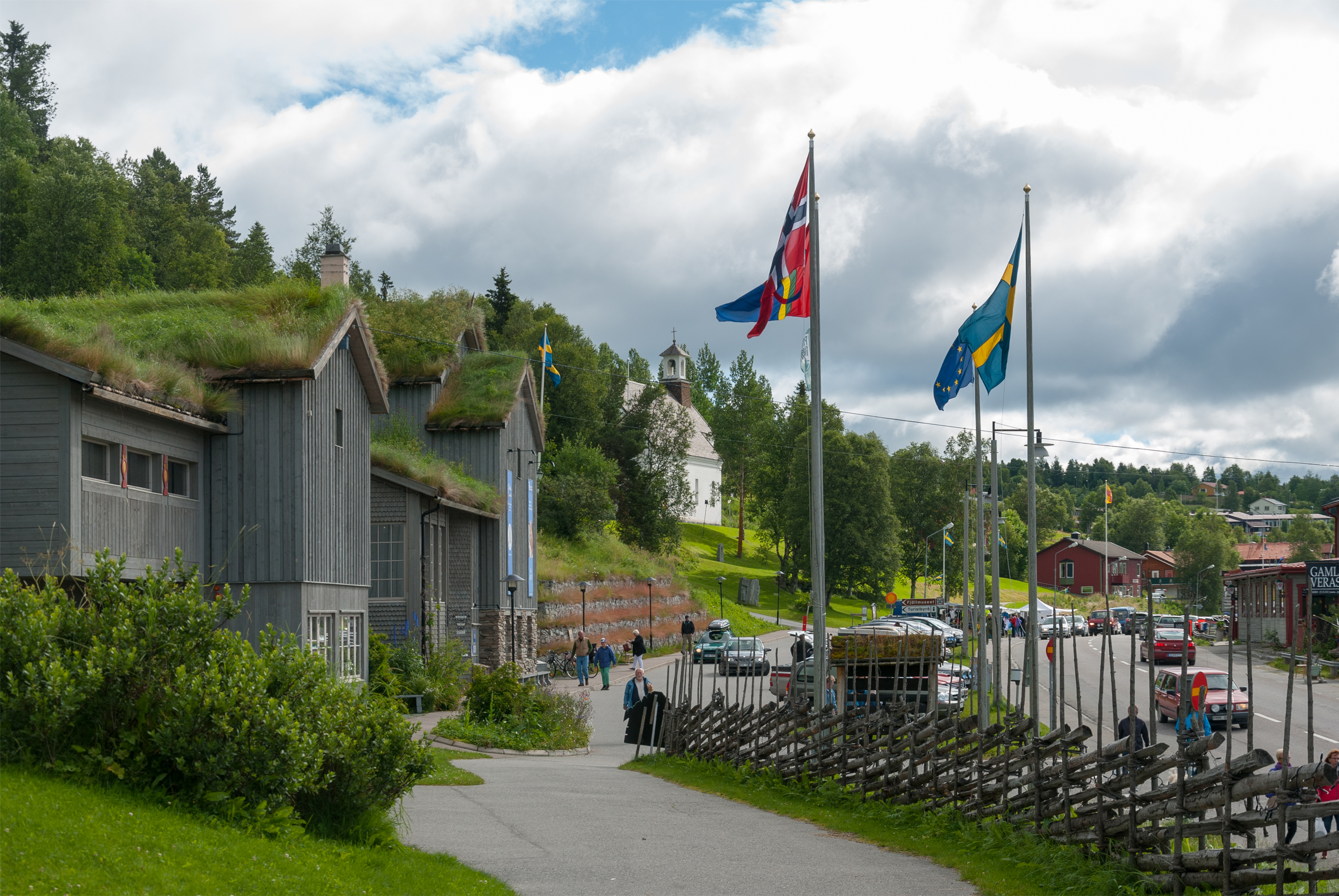 Funäsdalen.